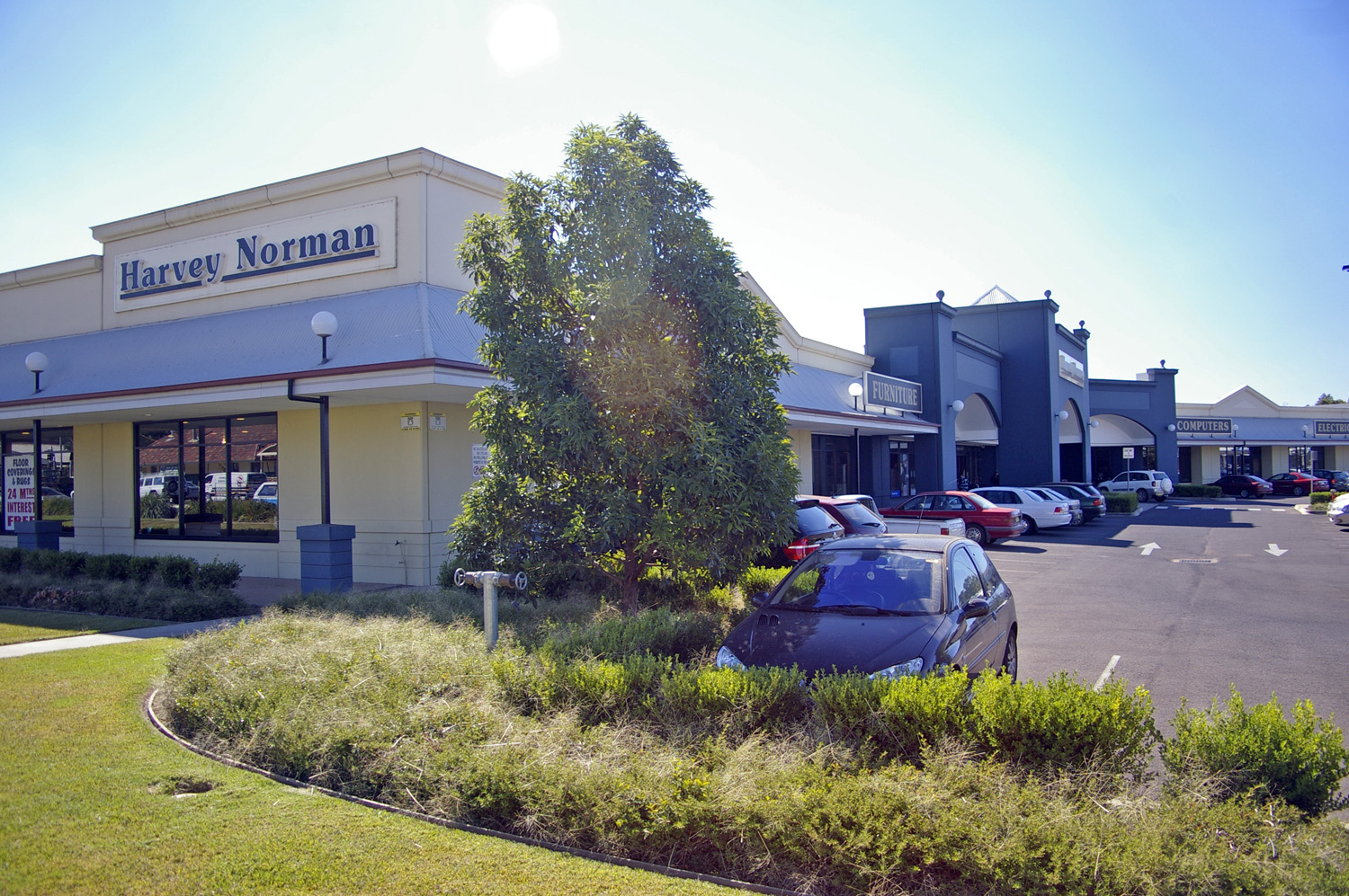 Harvey Norman. Home Base, Wagga Wagga, New South Wales